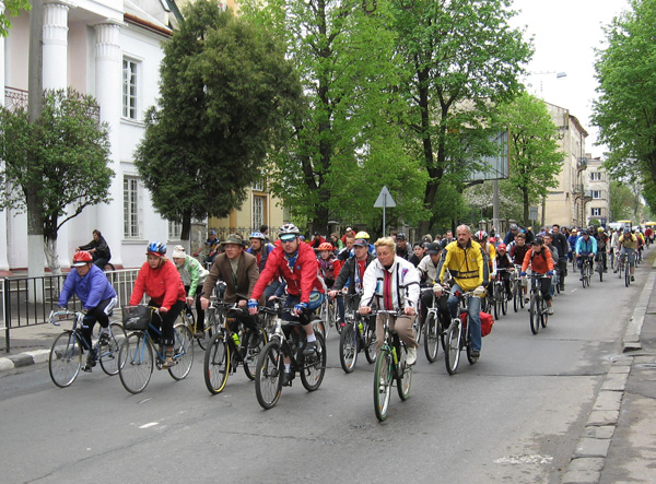 People with bicycles